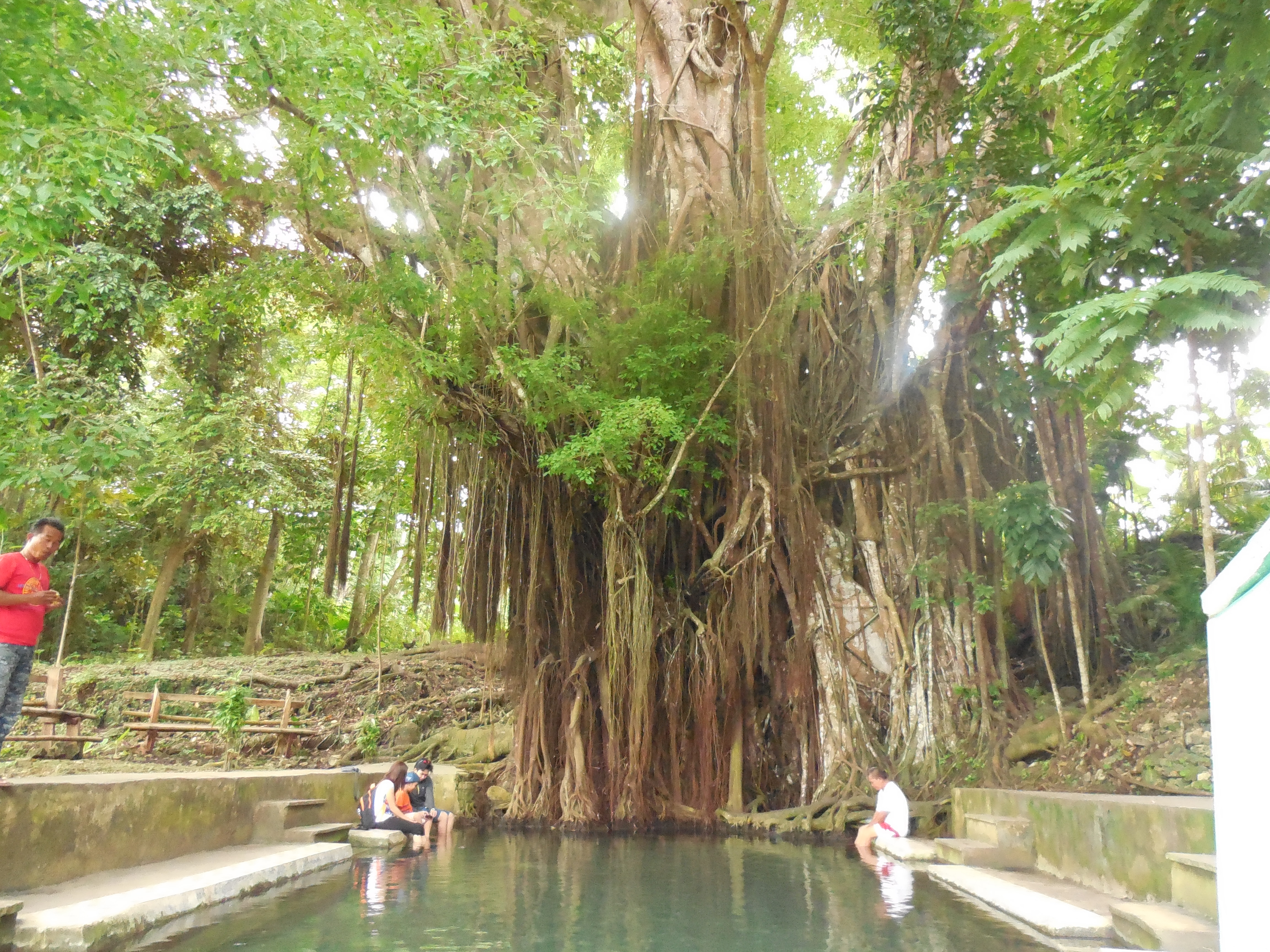 The century-old Enchanted Balete Tree in Lazi, Siquijor. A natural spring emanates from its roots, where doctor fish were introduced, giving visitors the unique experience of having their dead skin cells cleaned by these fish.